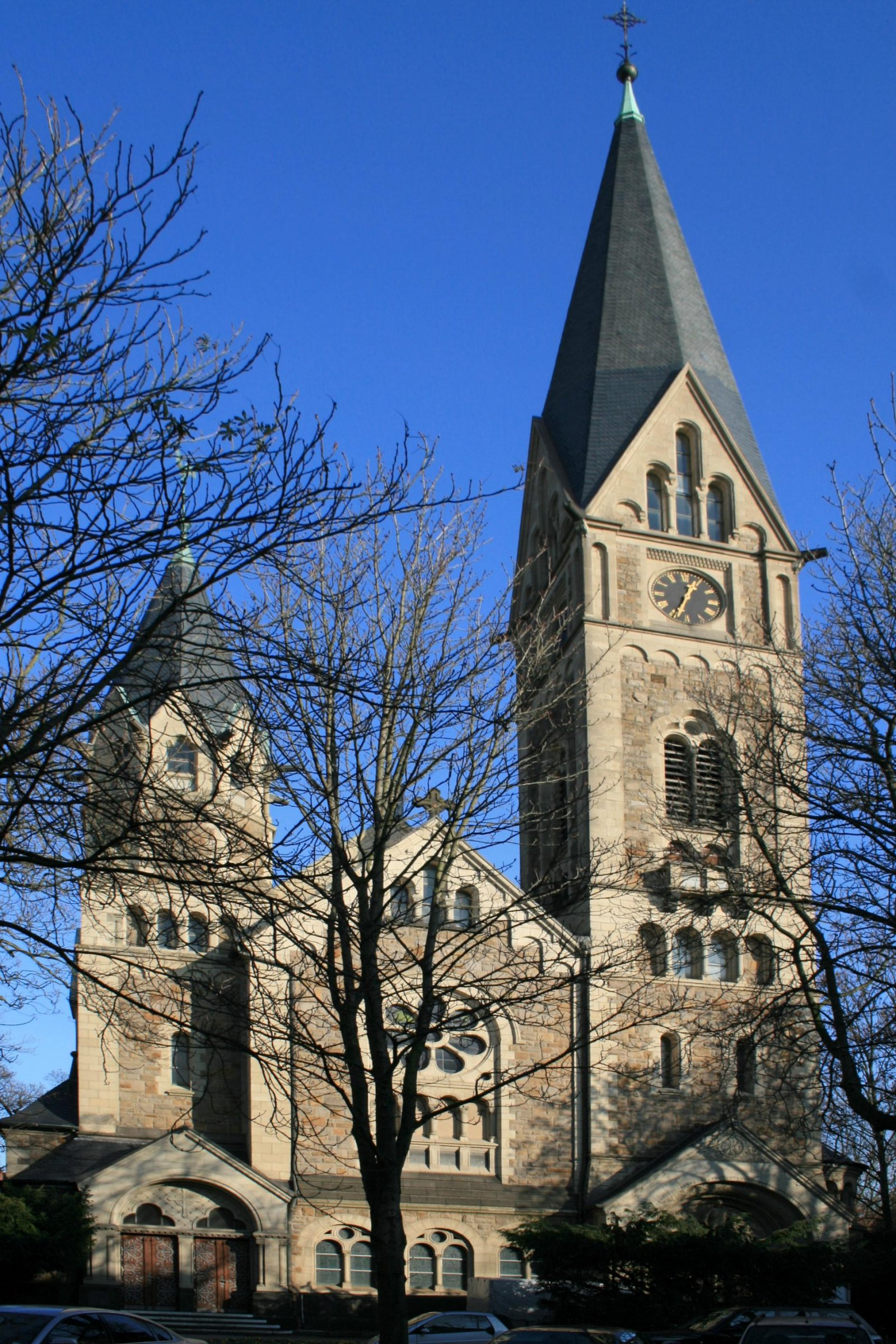 This is a photograph of an architectural monument.